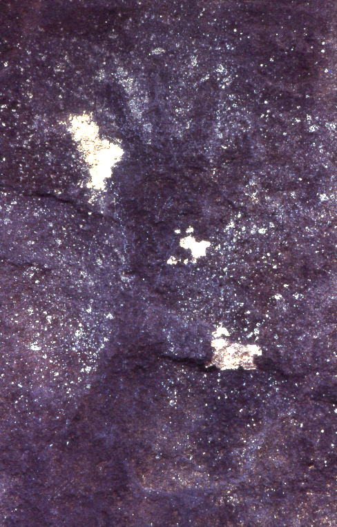 Aboriginal hand stencils, Roseville Chase, New South Wales, Sydney, photo by Sardaka 08:51, 13 November 2007 (UTC)